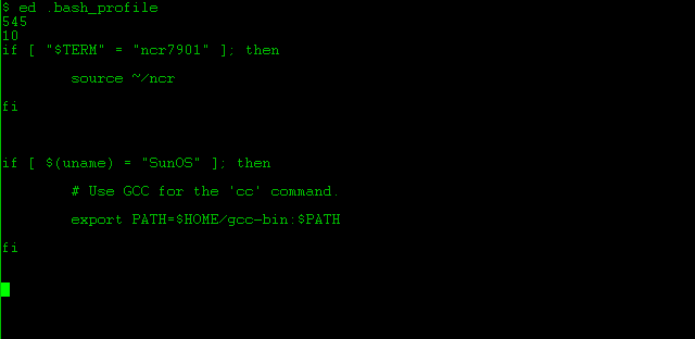 Screen shot, tinted green, of me editing a shell script on a Unix system, using the "ed" editor.